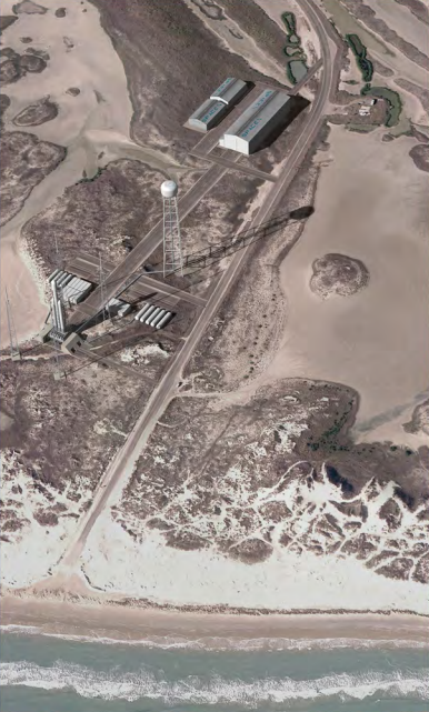 "Vertical Launch Area Artists' Depiction" of the Proposed SpaceX Texas Orbital Launch Site, from the FAA draft EIS, April 2013